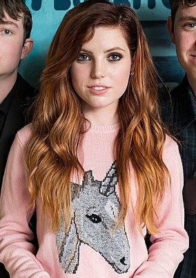 Sydney Grace Ann Sierota